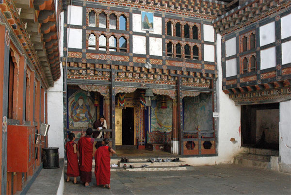 Wangdue Phodrang dzong, Bhutan